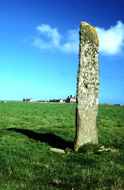 Holland House standing stone. North Ronaldsay. Standing stone 13' high by 4'wide and only 4" thick at the base. At a height of 6' there is a small hole through which you can peep if you are tall enough. In 1794 it was recorded that 50 inhabitants danced round it by moonlight on the first day of the year!